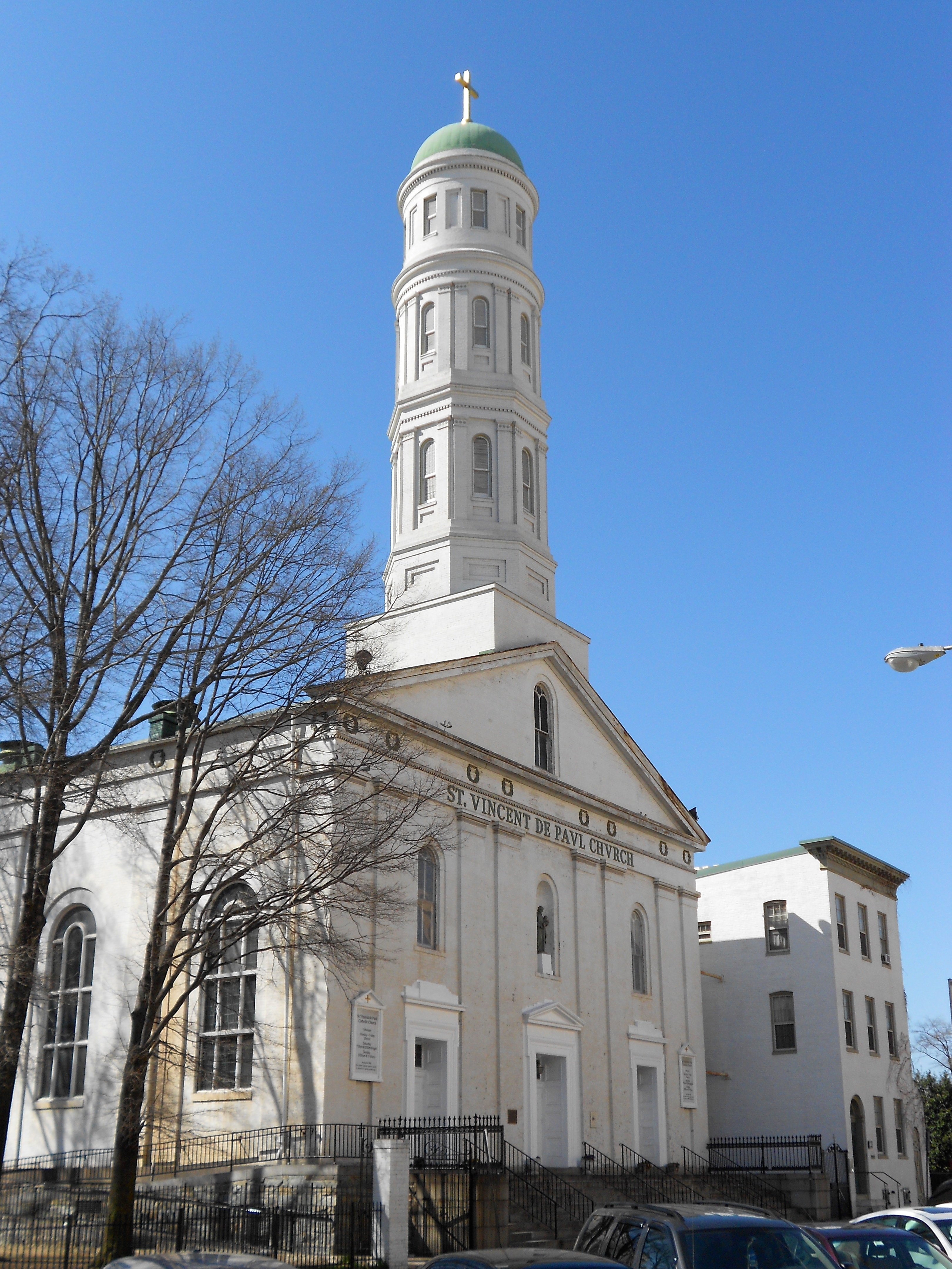 St. Vincent De Paul Roman Catholic Church on the NRHP since February 12, 1974. At 120 N. Front St. in southeast Baltimore, Maryland.